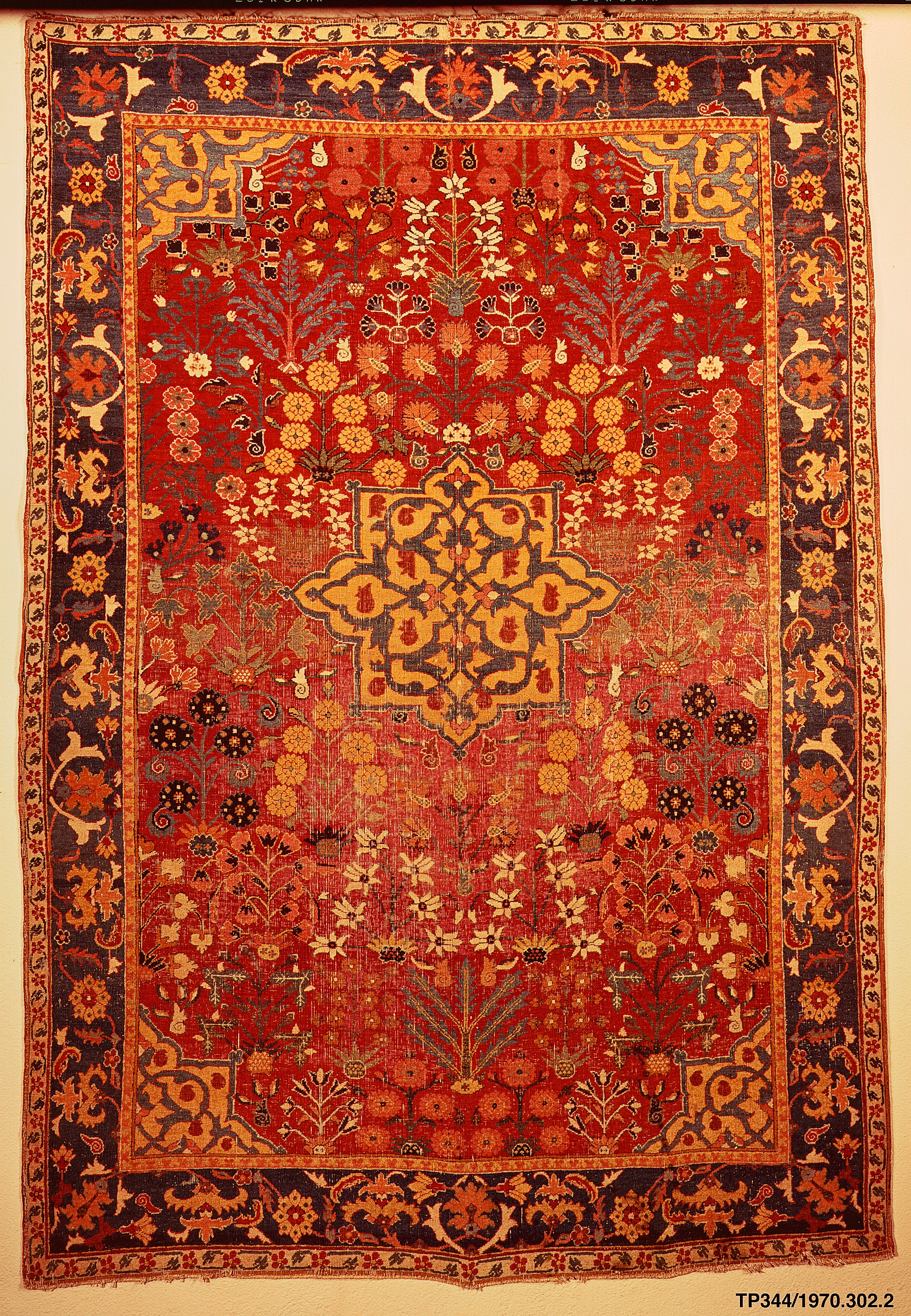 Carpet; Textiles-Rugs